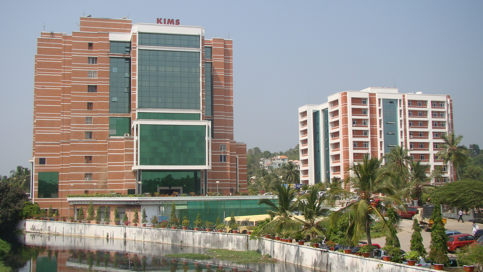 A view of Kerala Institute of Medical Sciences (KIMS) hospital in Thiruvananthapuram